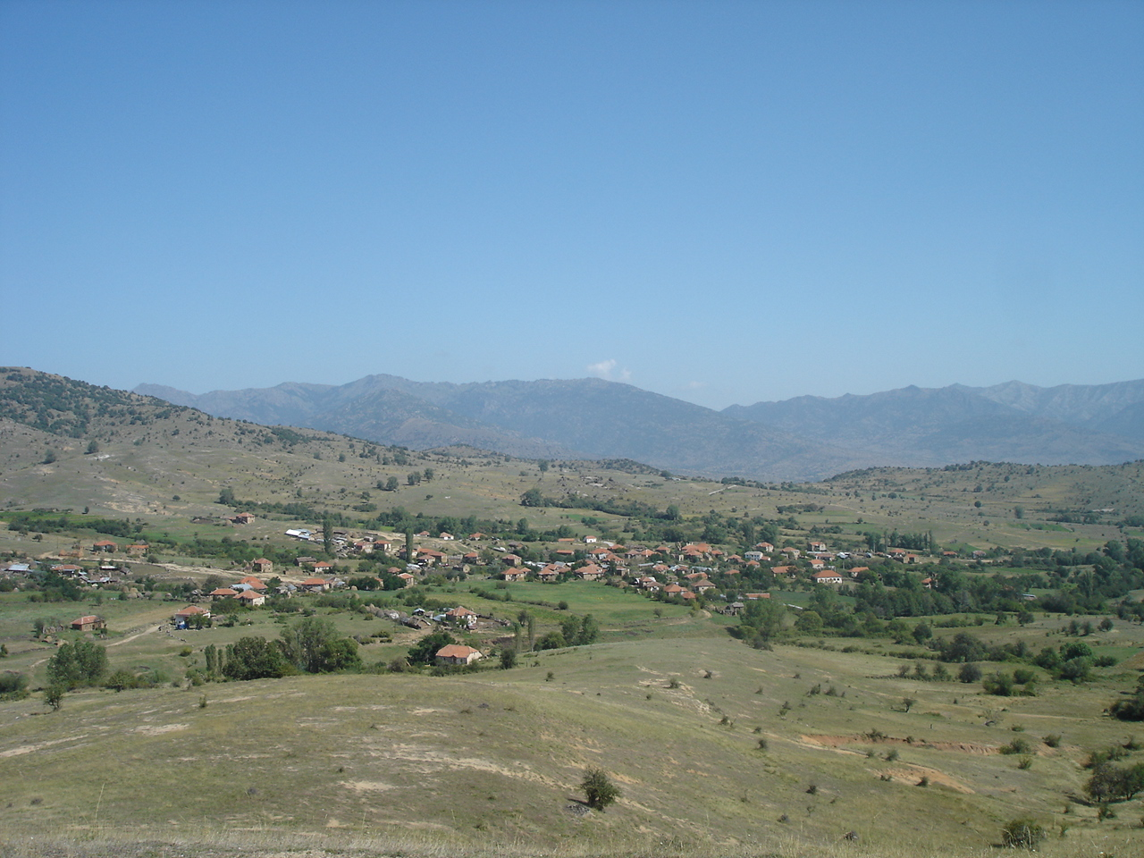 village Krushevica in Mariovo region near Prilep, Macedonia